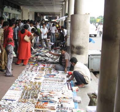 Grand Hotel arcade